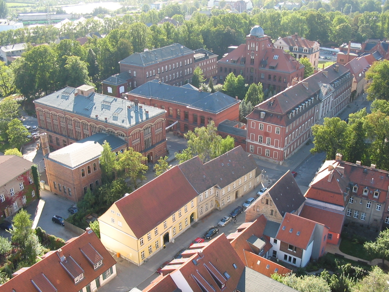 This is the old campus of Ernst_Moritz_Arndt_University_of_Greifswald in the historic city centre of Greifswald